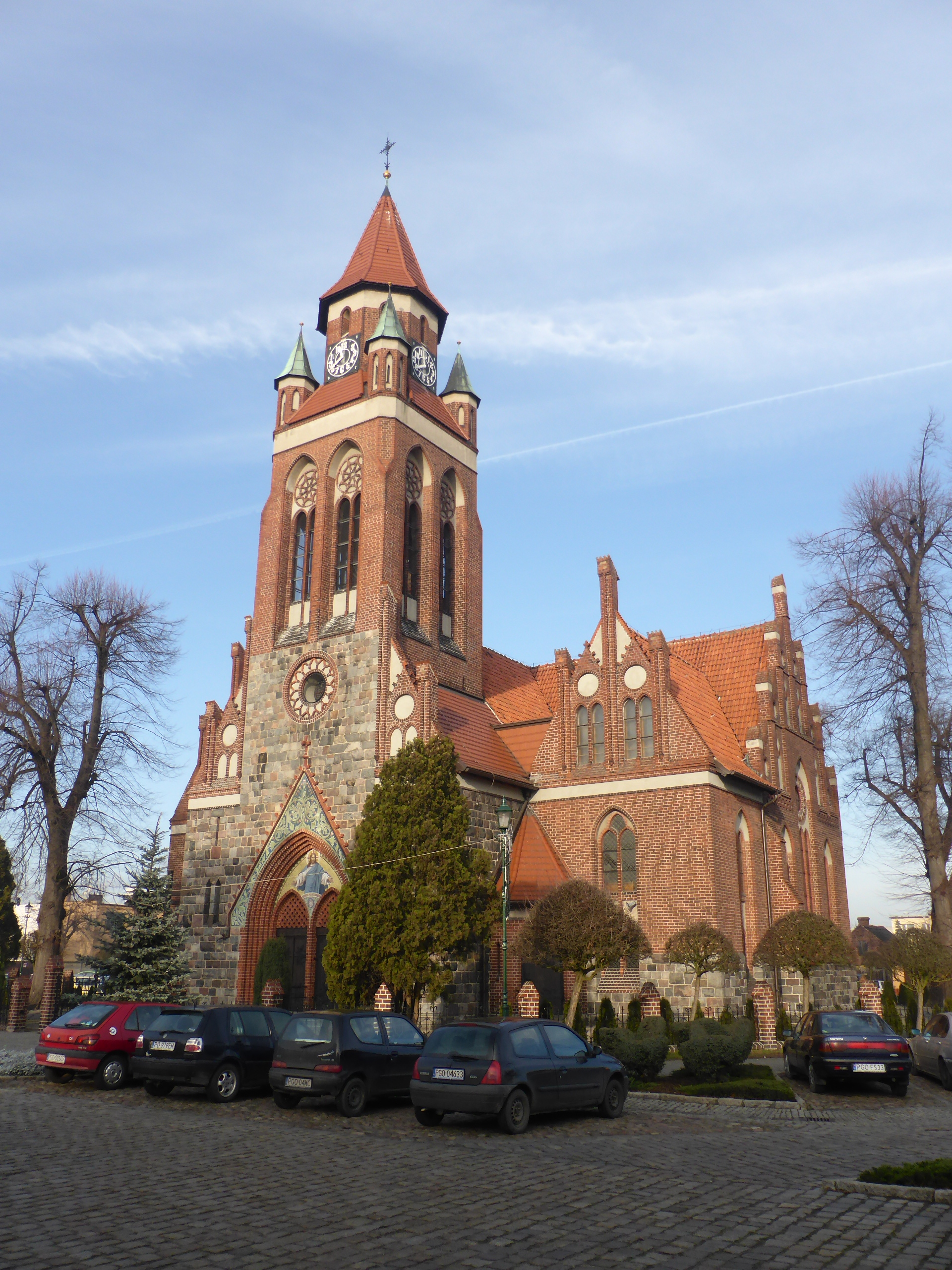 Sacred Heart church in Grodzisk Wielkopolski, Poland